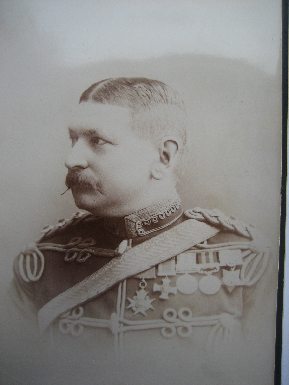 Private family archive, Richard Hebden O'Grady Haly in officer uniform lieutenant colonel, GB/UK late 19th century